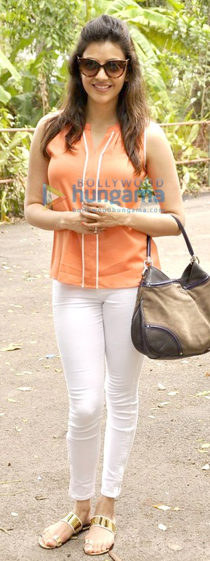 KajalAgarwal celebrating her birthday in an ngo